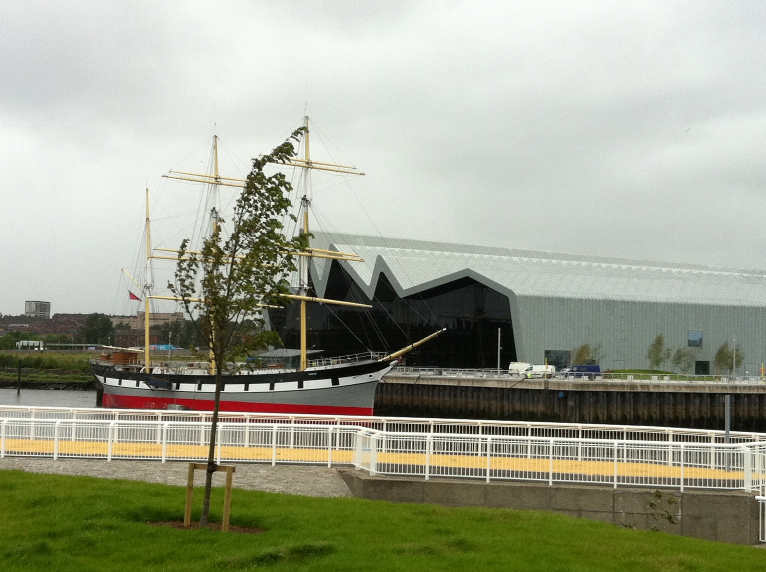 Taken from the other side of the Clyde. Riverside Museum in Glasgow